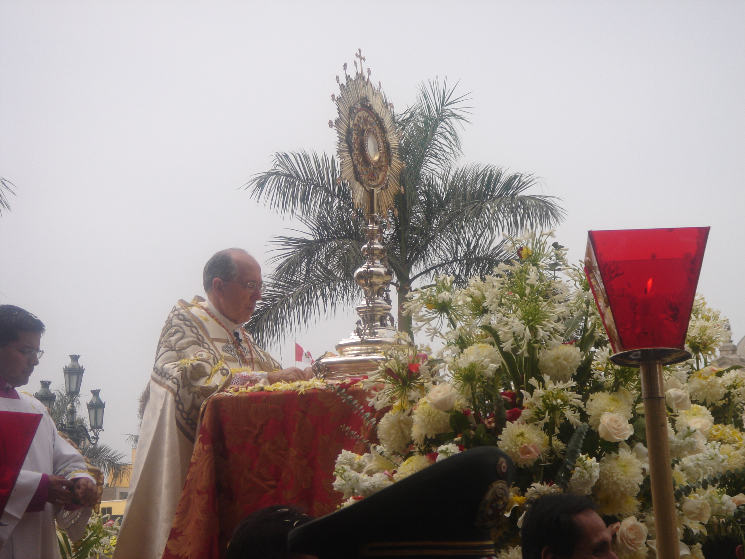 Cardinal Juan Luis Cipriani, Archbishop of Lima. Corpus Christi, 2006.